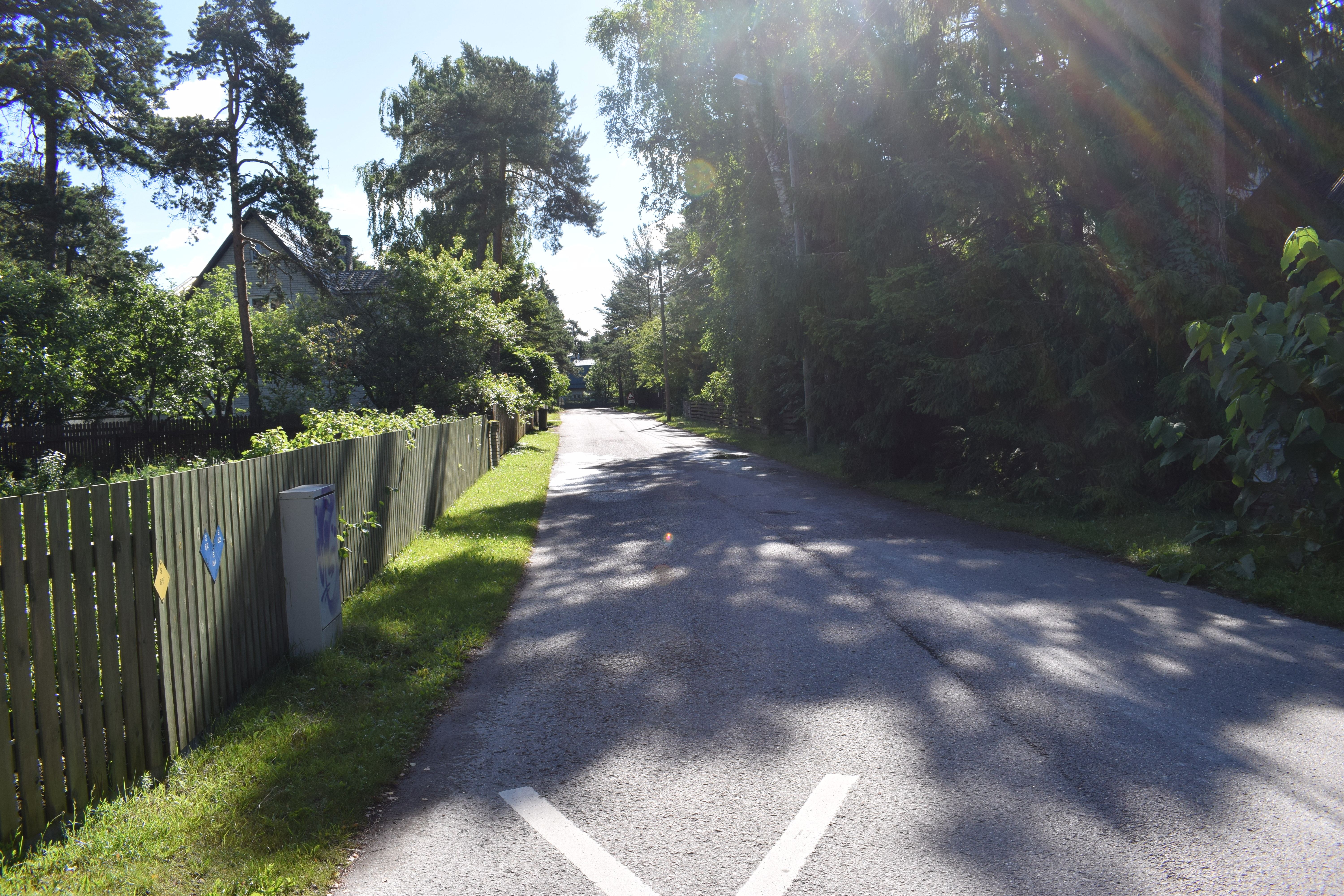 Seedri street